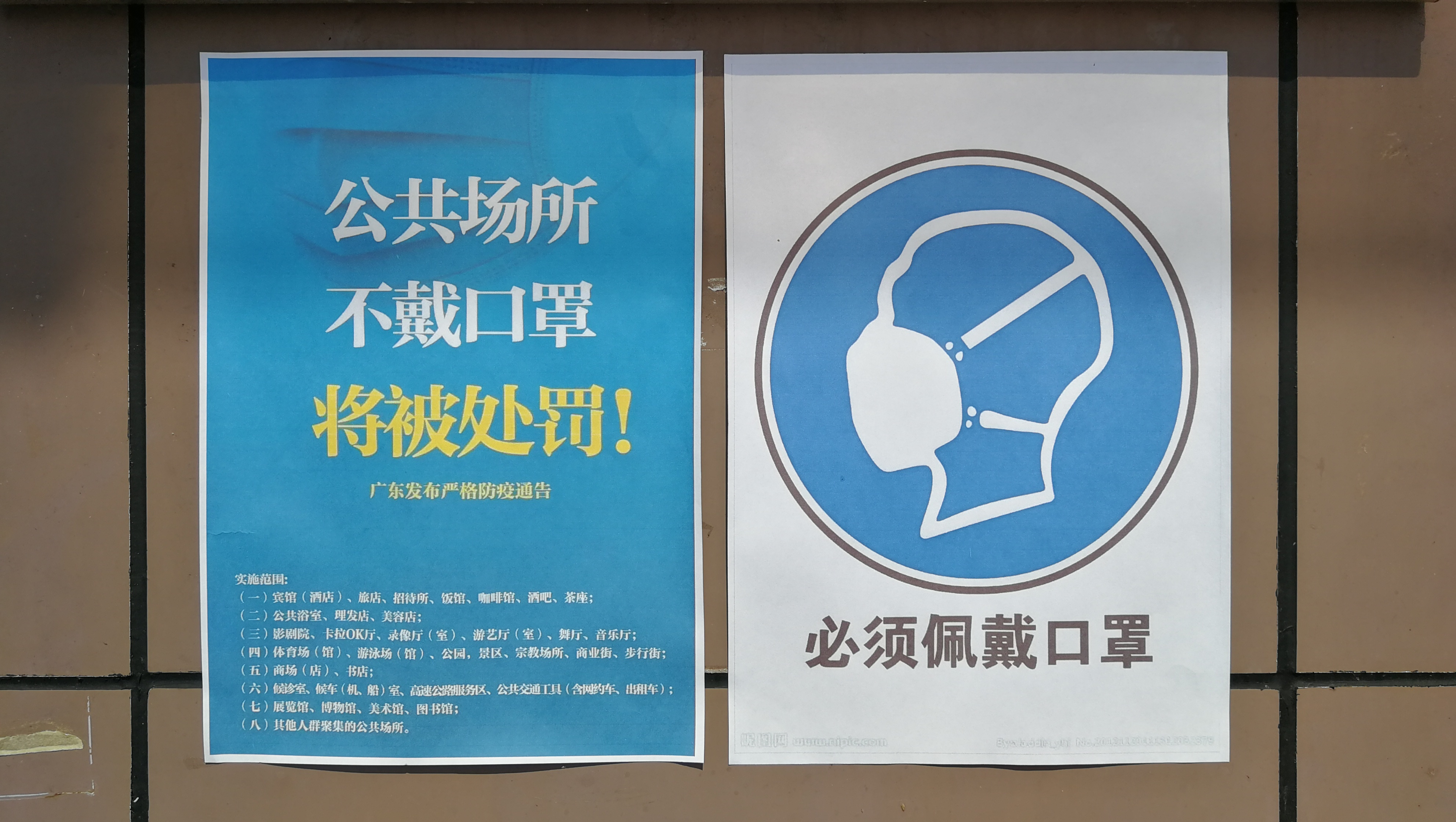 During the Covid-19 outbreak, two notices in Yangcun Service Area of Guangzhou-Heyuan Expressway (Guangdong, China) required people to wear masks.